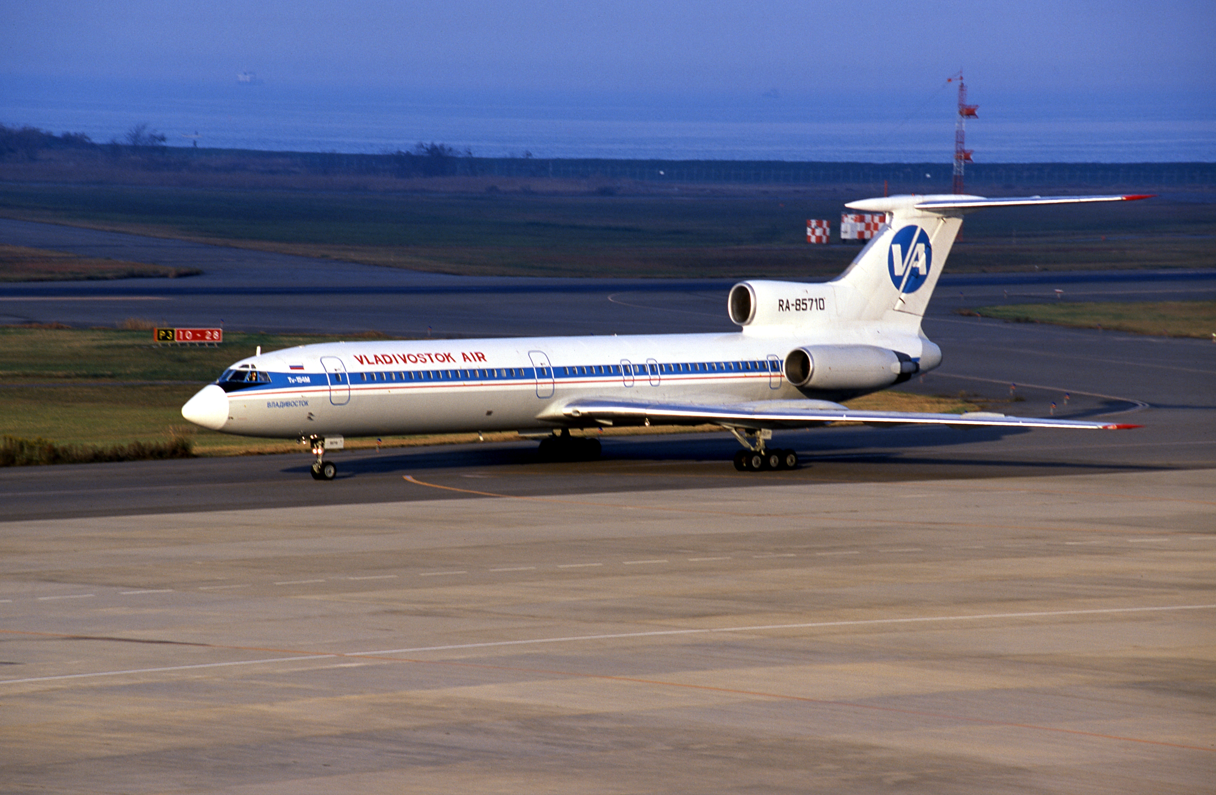 Tupolev Tu-154M (registration RA-85710) of the Vladivostok Air airline at the Niigata Airport in Niigata, Niigata Prefecture, Japan.